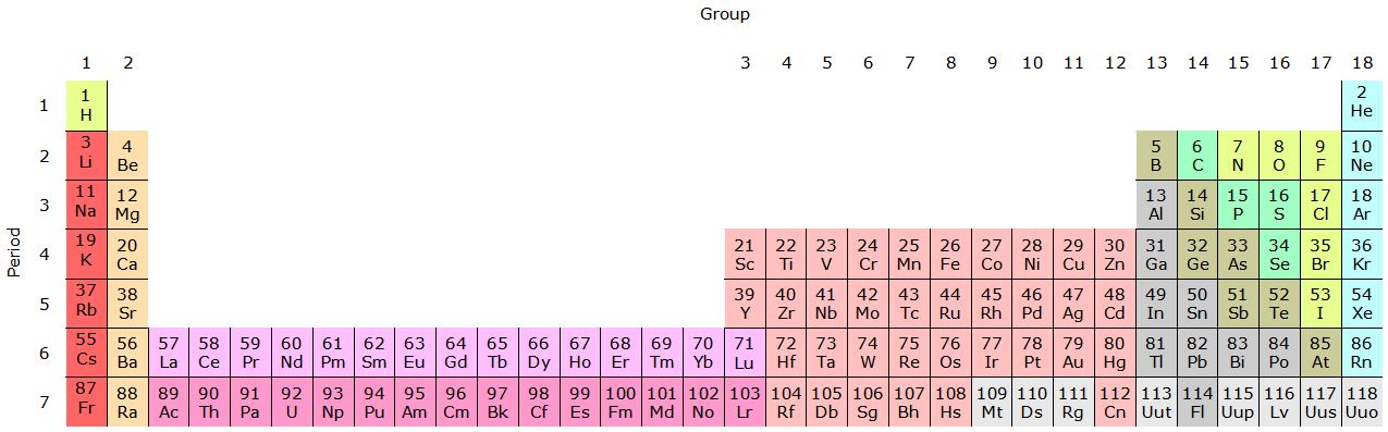 32-column periodic table with Sc, Y, Lu and Lr in group 3